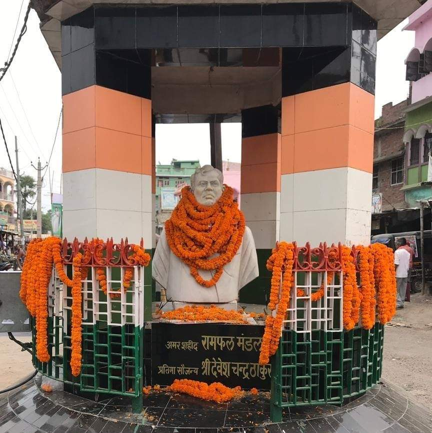 First Martyr from current Bihar who has been executed by british government in Bhagalpur jail with case no: 473/42 executed in 23rd August 1943 First Martyr from current Bihar who has been executed by british government in Bhagalpur jail with case no: 473/42 executed in 23rd August 1943